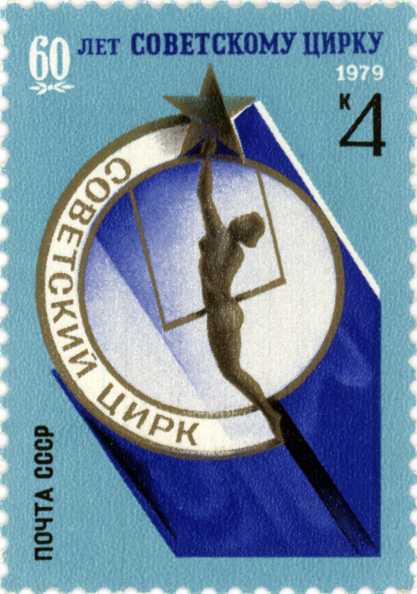 1979 USSR stamp. 60th anniversary of Soviet circus